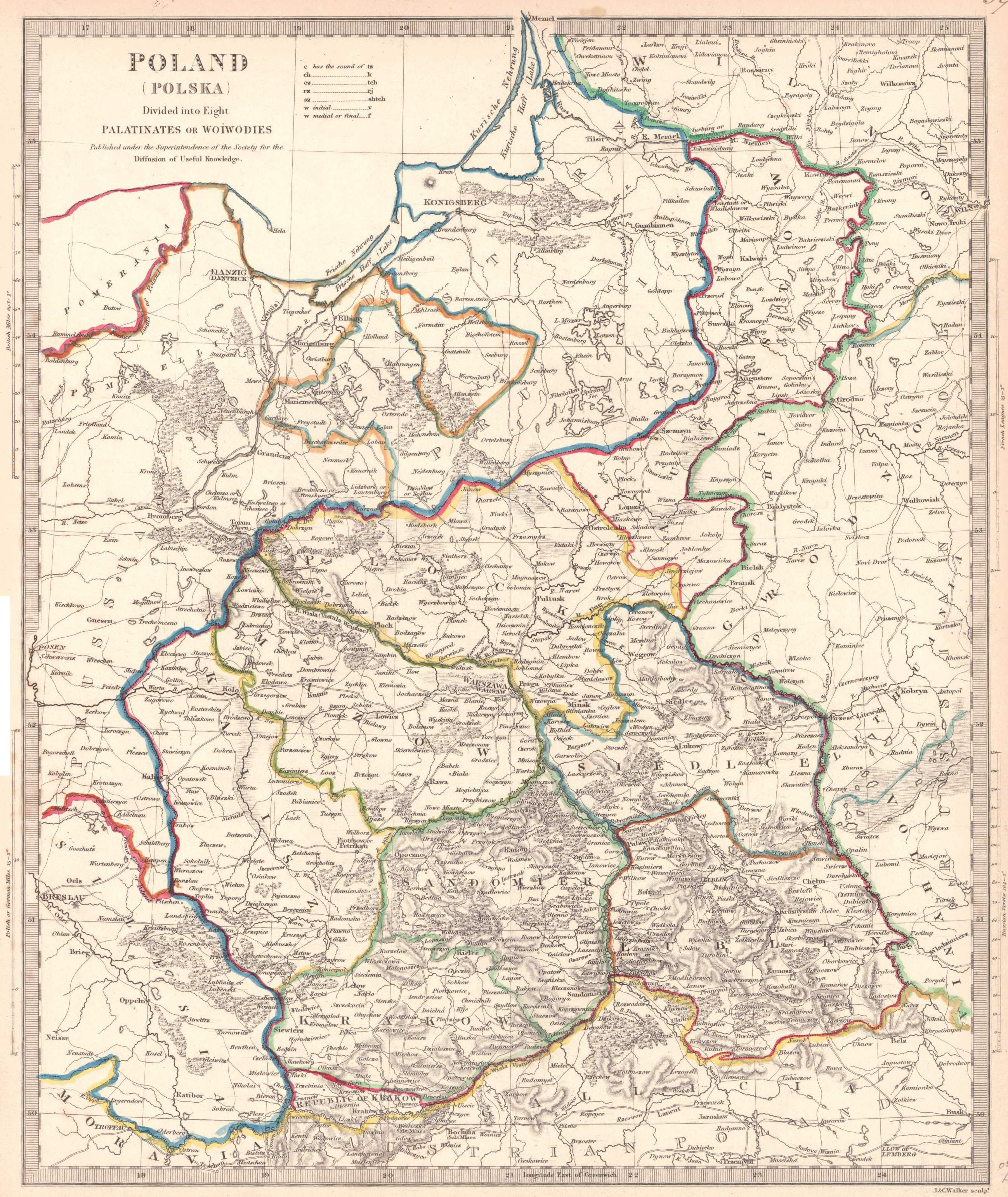 Poland (Polska) Divided into Eight Palatinates or Woïwodies. 1:1,901,000